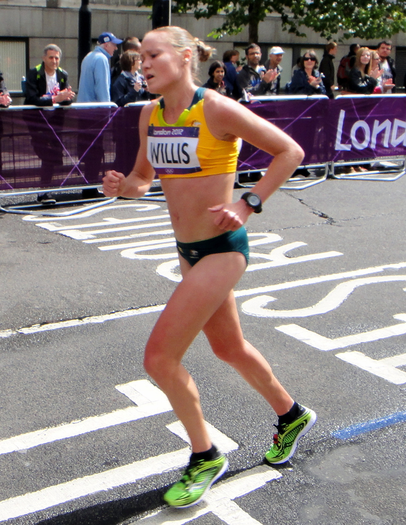 Benita Willis (Australia) - London 2012 Women's Marathon